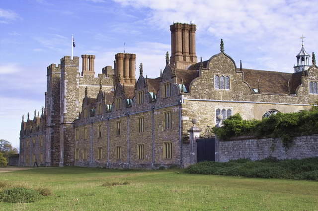 Knole House